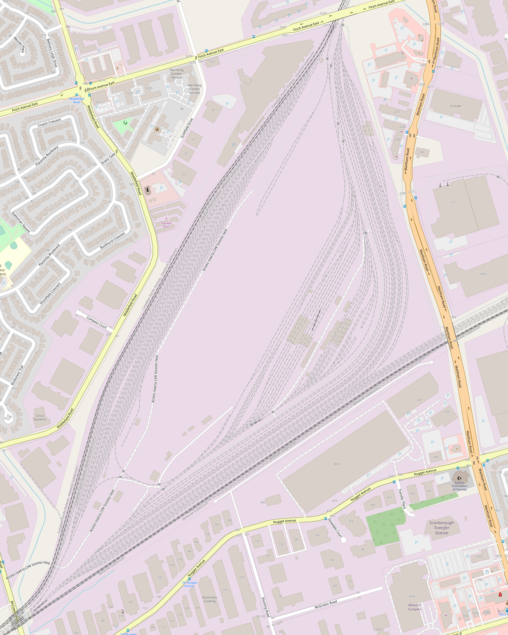 What is left of the CPR Toronto Yard in 2019